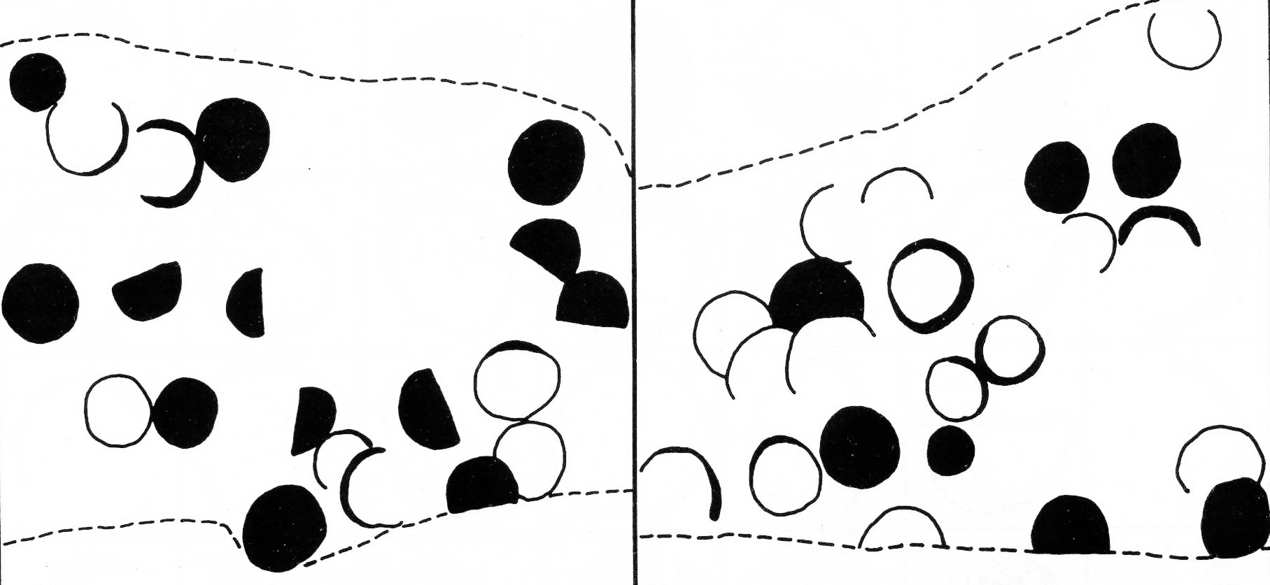 Moon phases Baylovo Bulgaria